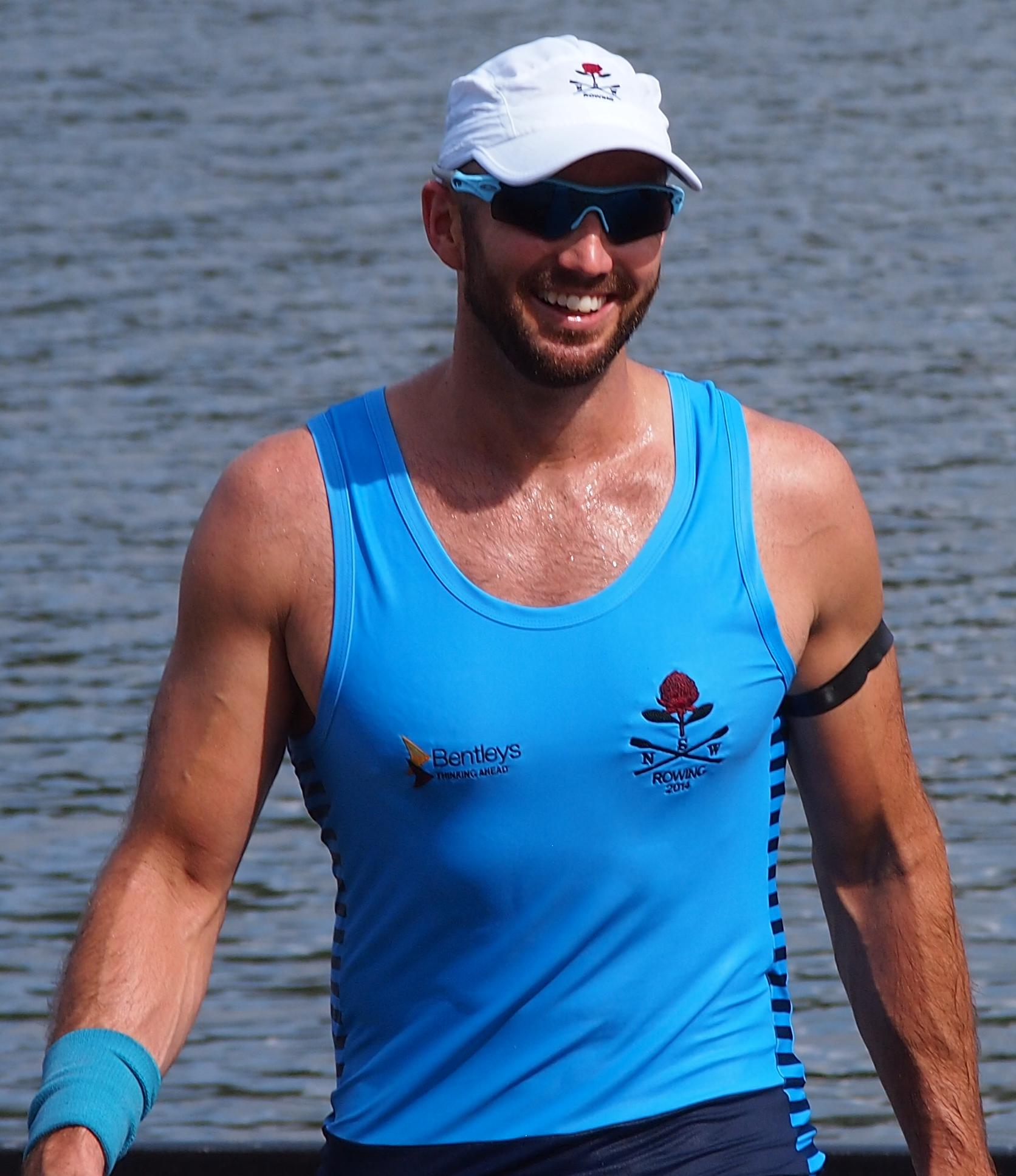 James Chapman after winning the Kings Cup in 2014